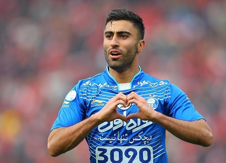 Tehran derby